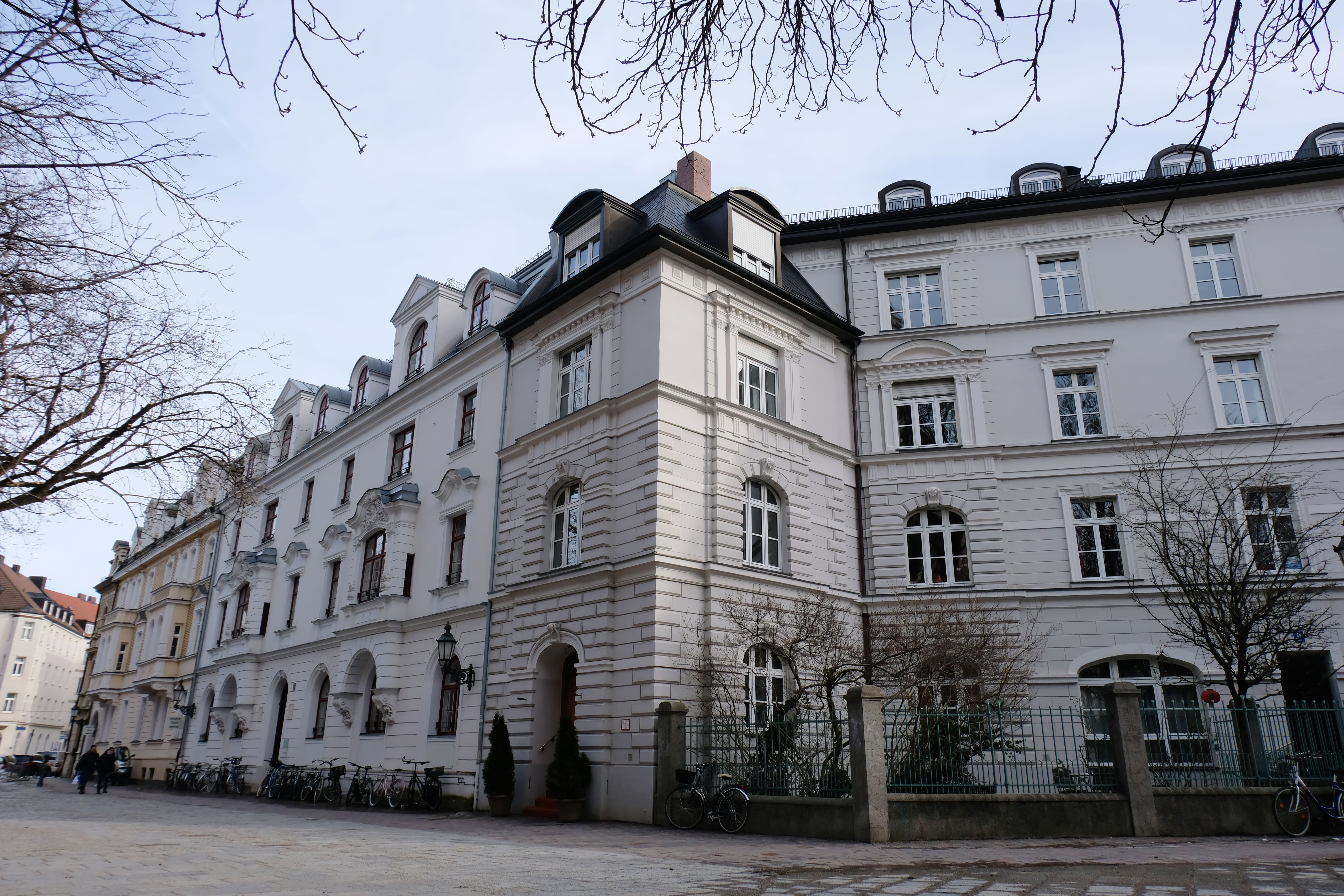 St.-Anna-Platz in Munich, Germany